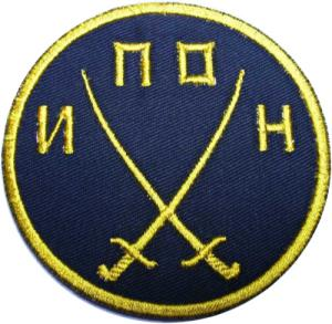 Patch worn by members of the Chechen Special Operations Regiment. The Cyrillic letters (ИПОН) are the abbreviated form of its Russian name.